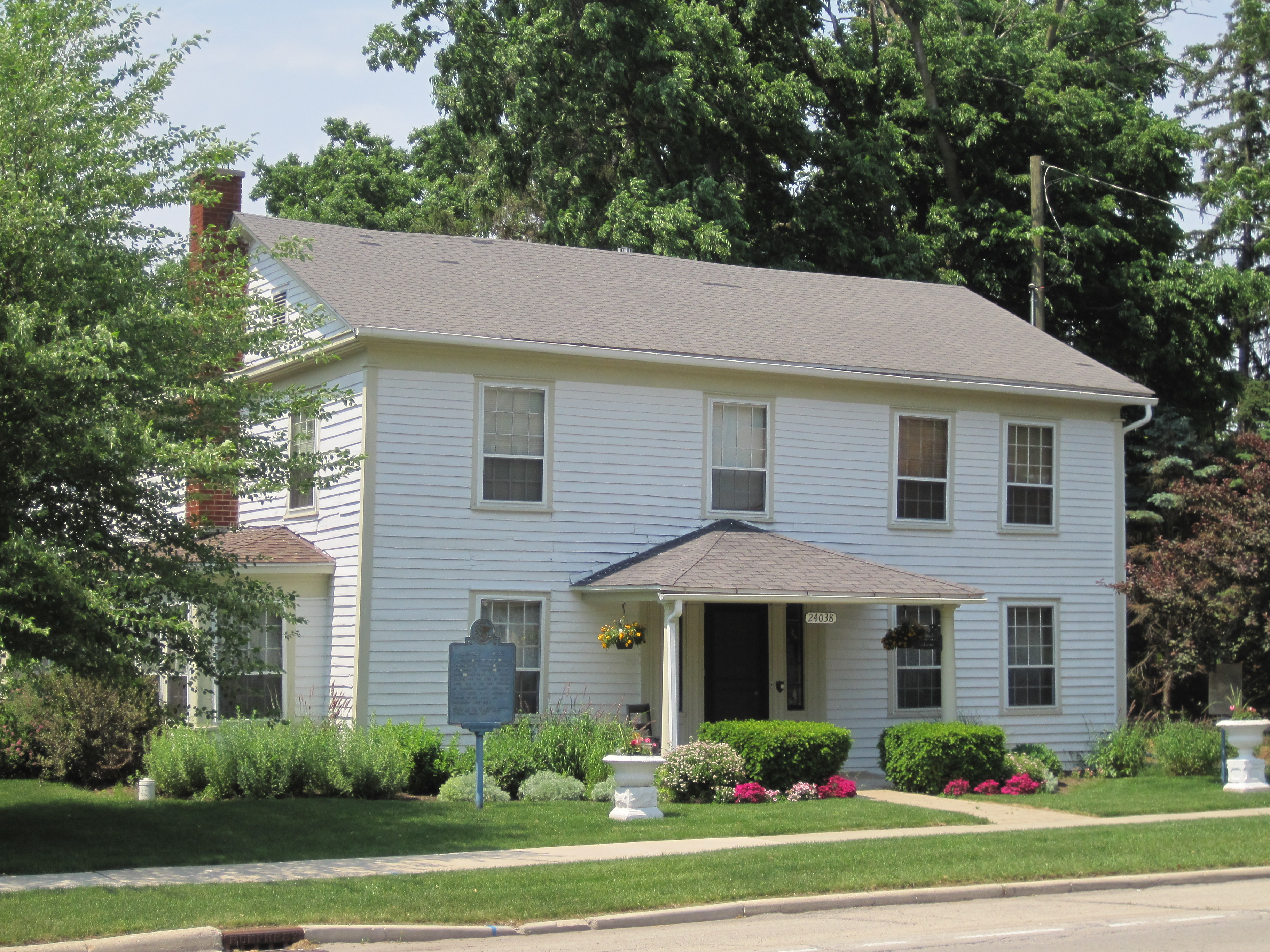 I (Teemu08 (talk)) took this image on June 8, 2011